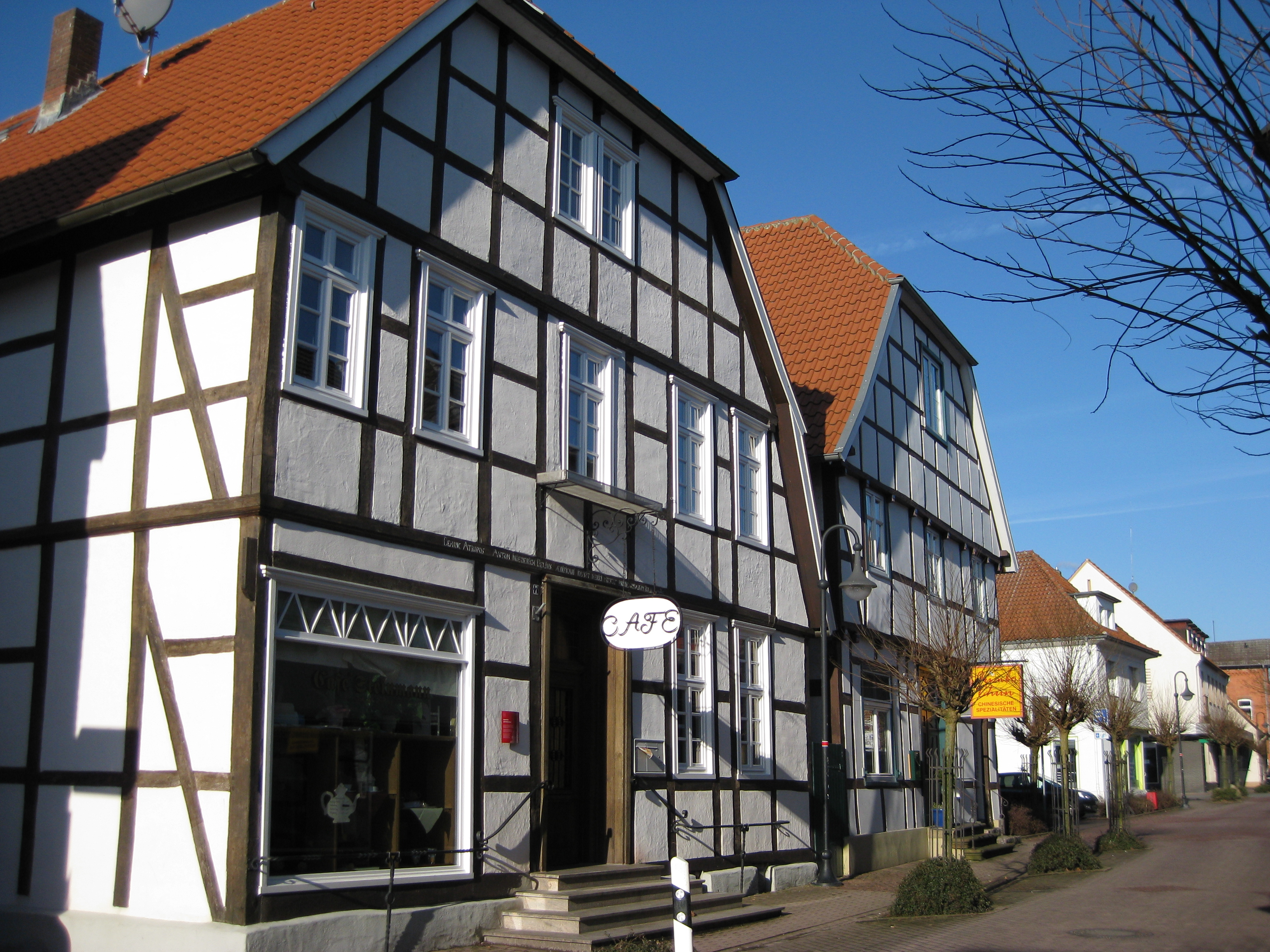 Ravensberger Straße 7 and 9 in Versmold, text on infoboard: The buildings at Ravensberger Straße 7 and 9 both date from the 18th century. While no. 7 was erected by the Delius family as Versmold's oldest pharmacy, no. 9 originally served as the residence and business address of a trader